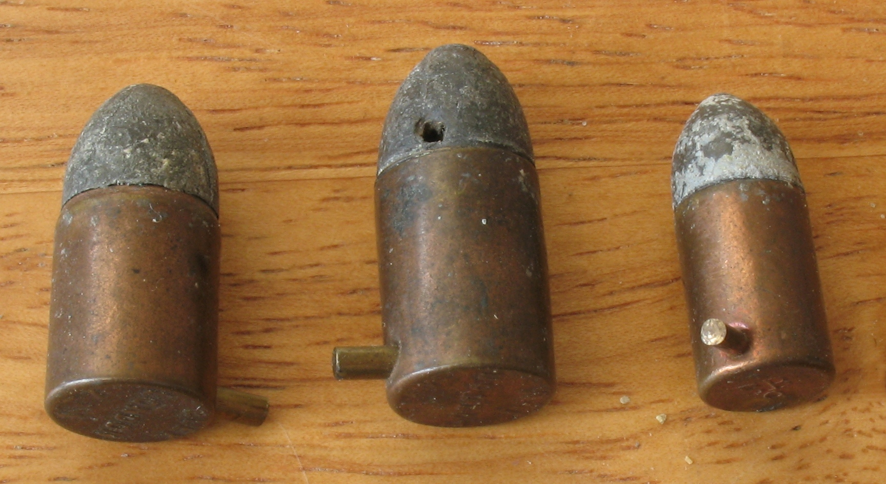 Three antique pinfire pistol cartridges. Left and center are 12mm cartridges produced by Eley, of the UK, and the right is a 9mm cartridge manufactured by Braun & Bloem of Dusseldorff, Germany.